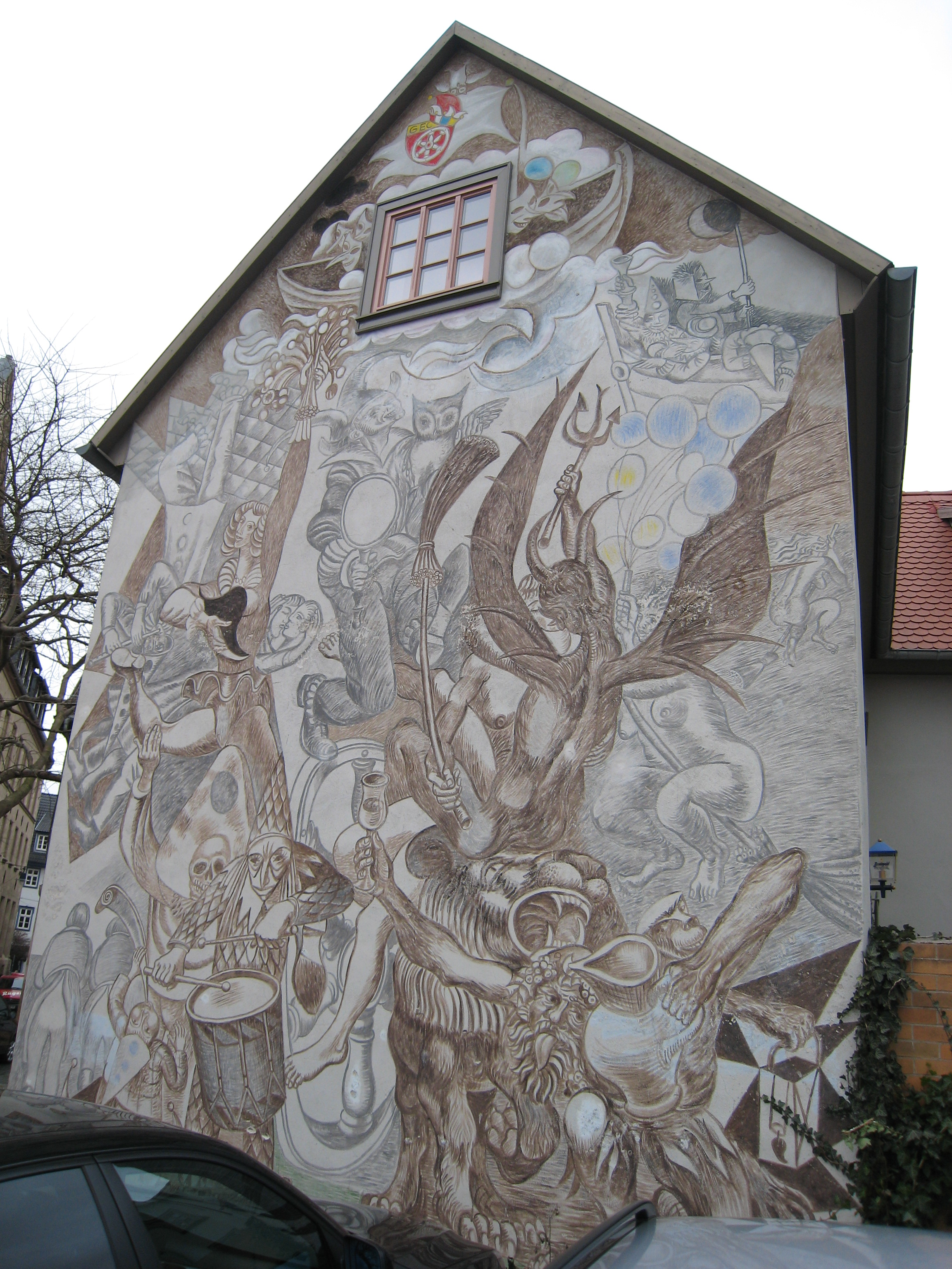 Haus zur Narrenschelle, painting by Erich Enge